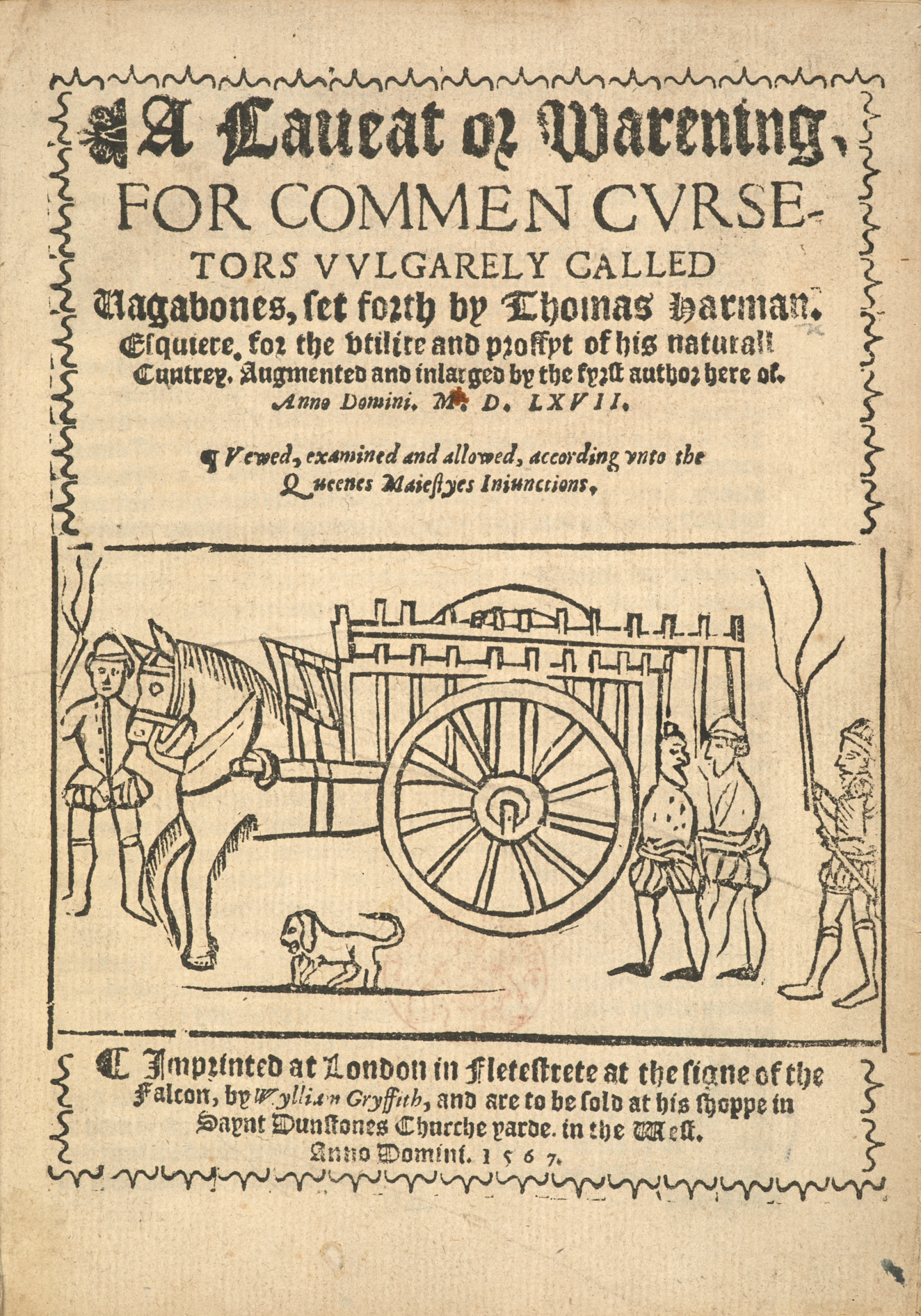 Title page of the 1567 reprint of A Caveat or Warning for Common Cursitors by Thomas Harman (fl. 1547–1567). The work was a "rogue's dictionary" of the various thieves and beggars to be found in England in the Tudor period.